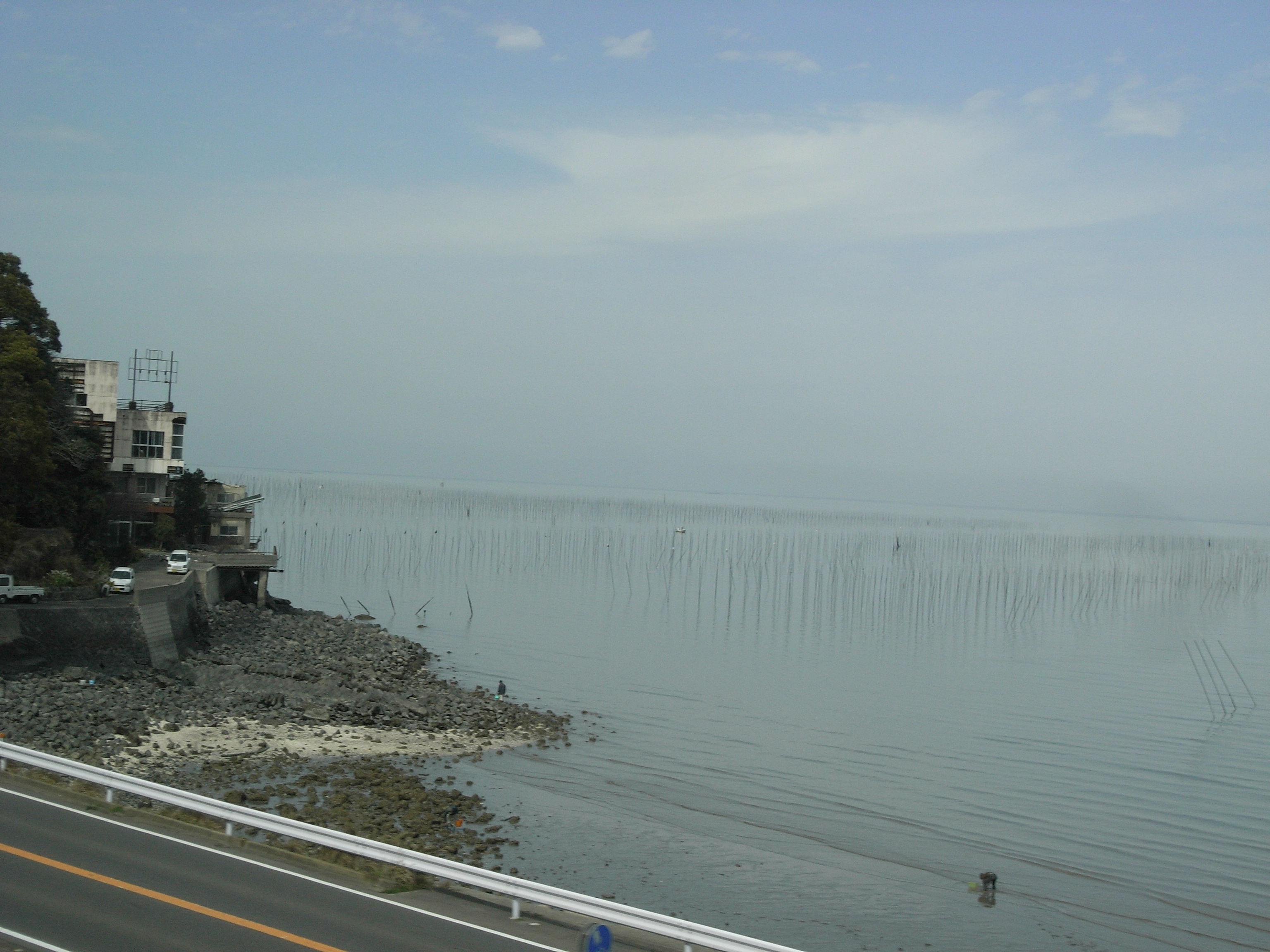 Nori poles of Ariake Sea in Tara town, Saga pref.